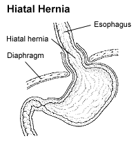 Author: National Institute of Diabetes and Digestive and Kidney Diseases, National Institutes of Health Source URL: Copyright tag: Why? Because it's from an NIH department. Images